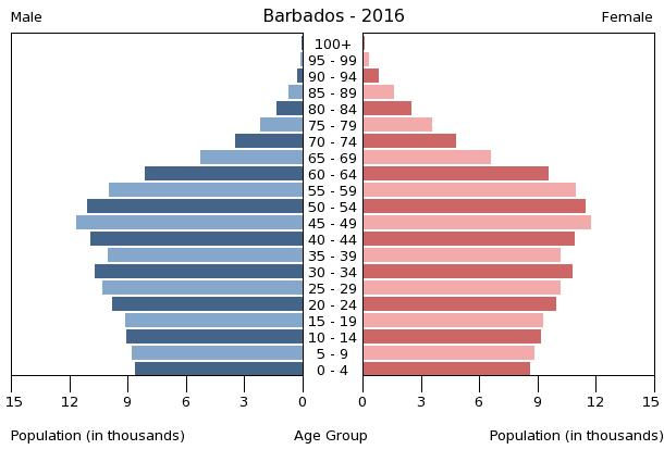 The population pyramid of Barbados illustrates the age and sex structure of population and may provide insights about political and social stability, as well as economic development. The population is distributed along the horizontal axis, with males shown on the left and females on the right. The male and female populations are broken down into 5-year age groups represented as horizontal bars along the vertical axis, with the youngest age groups at the bottom and the oldest at the top. The shape of the population pyramid gradually evolves over time based on fertility, mortality, and international migration trends.